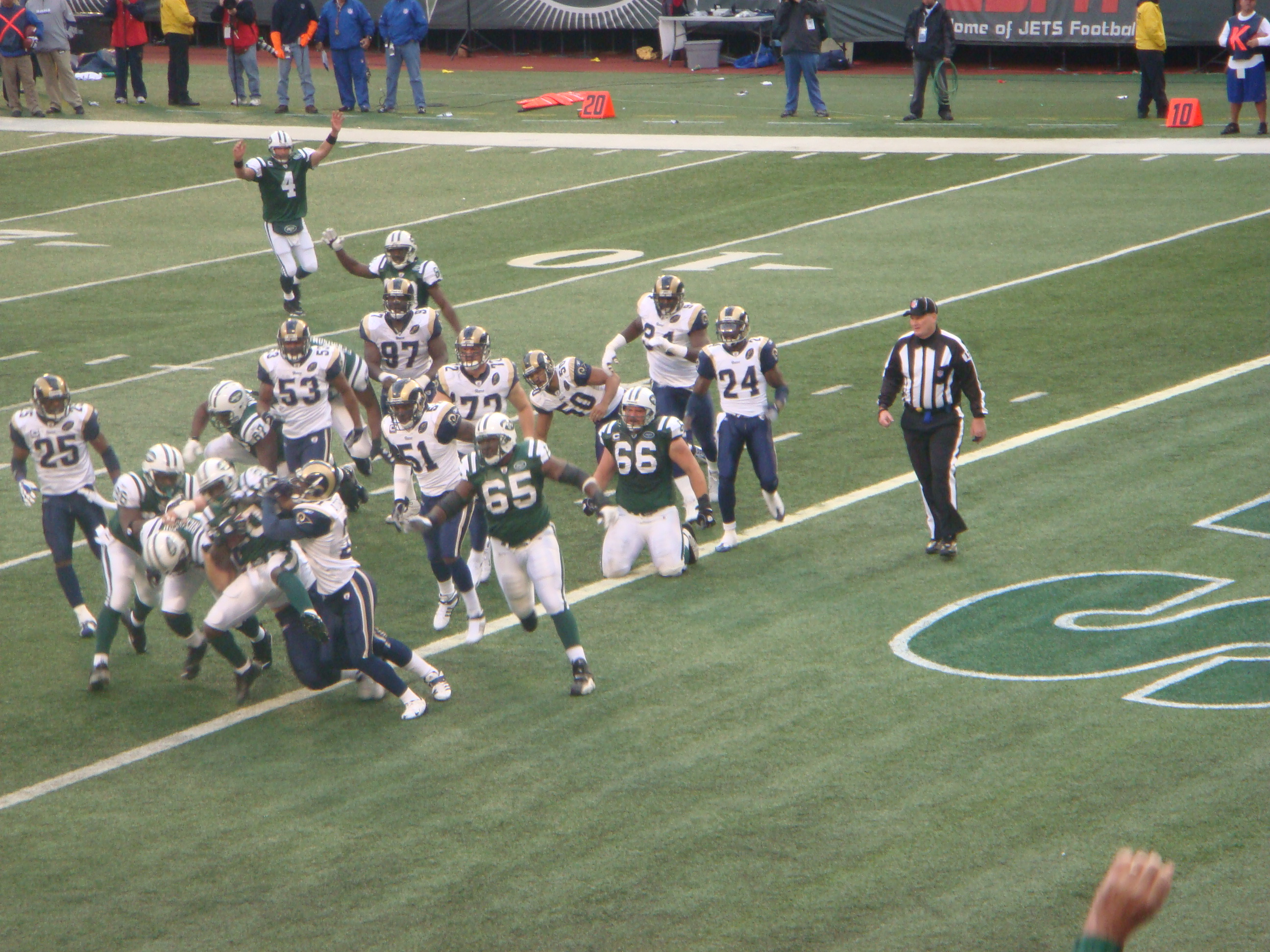 New York Jets running back Thomas Jones scores a touchdown on a run while being tackled by several St. Louis Rams players.